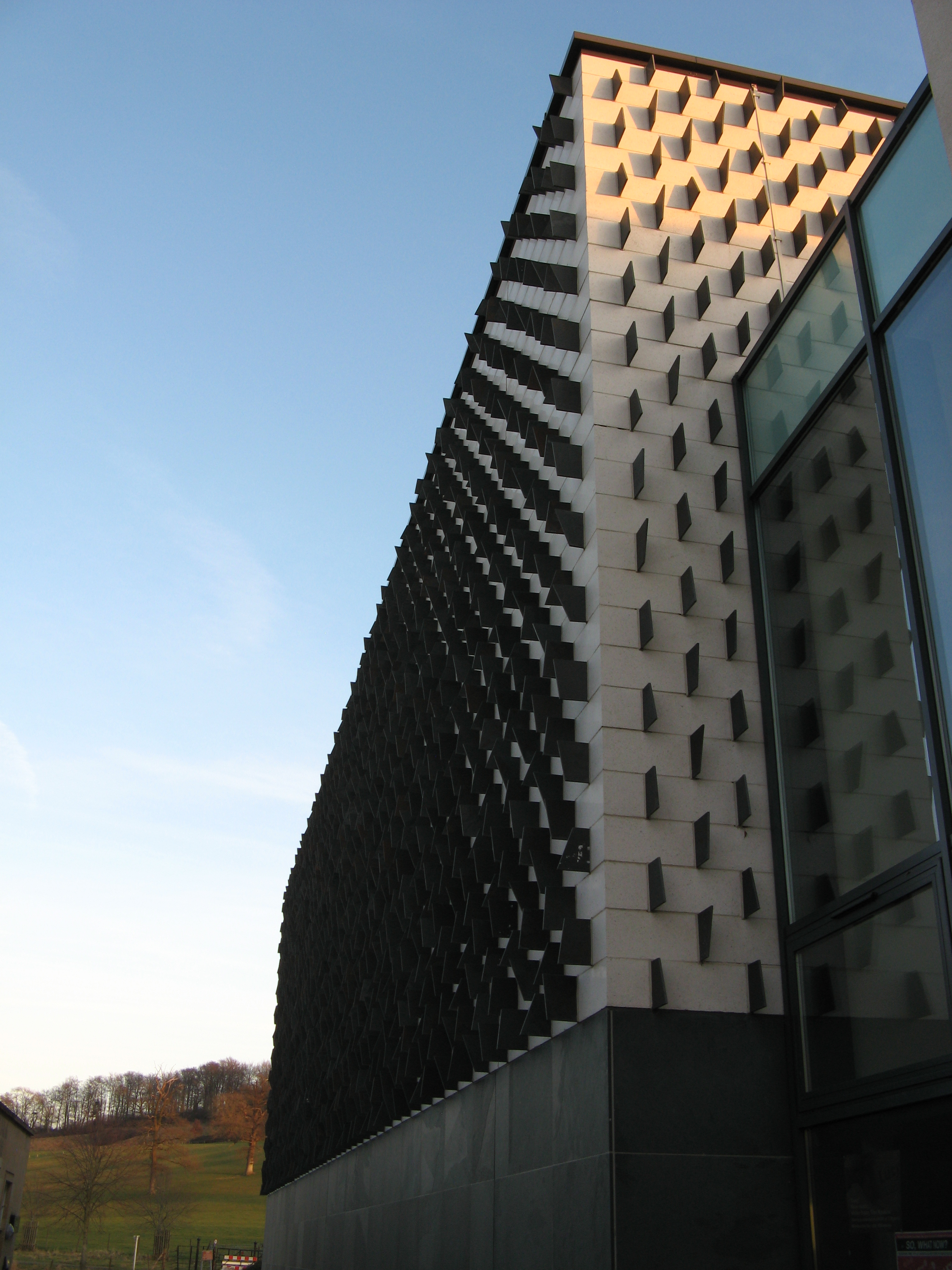 North western corner of the Michael Tippett Centre, on the main Bath Spa University campus.